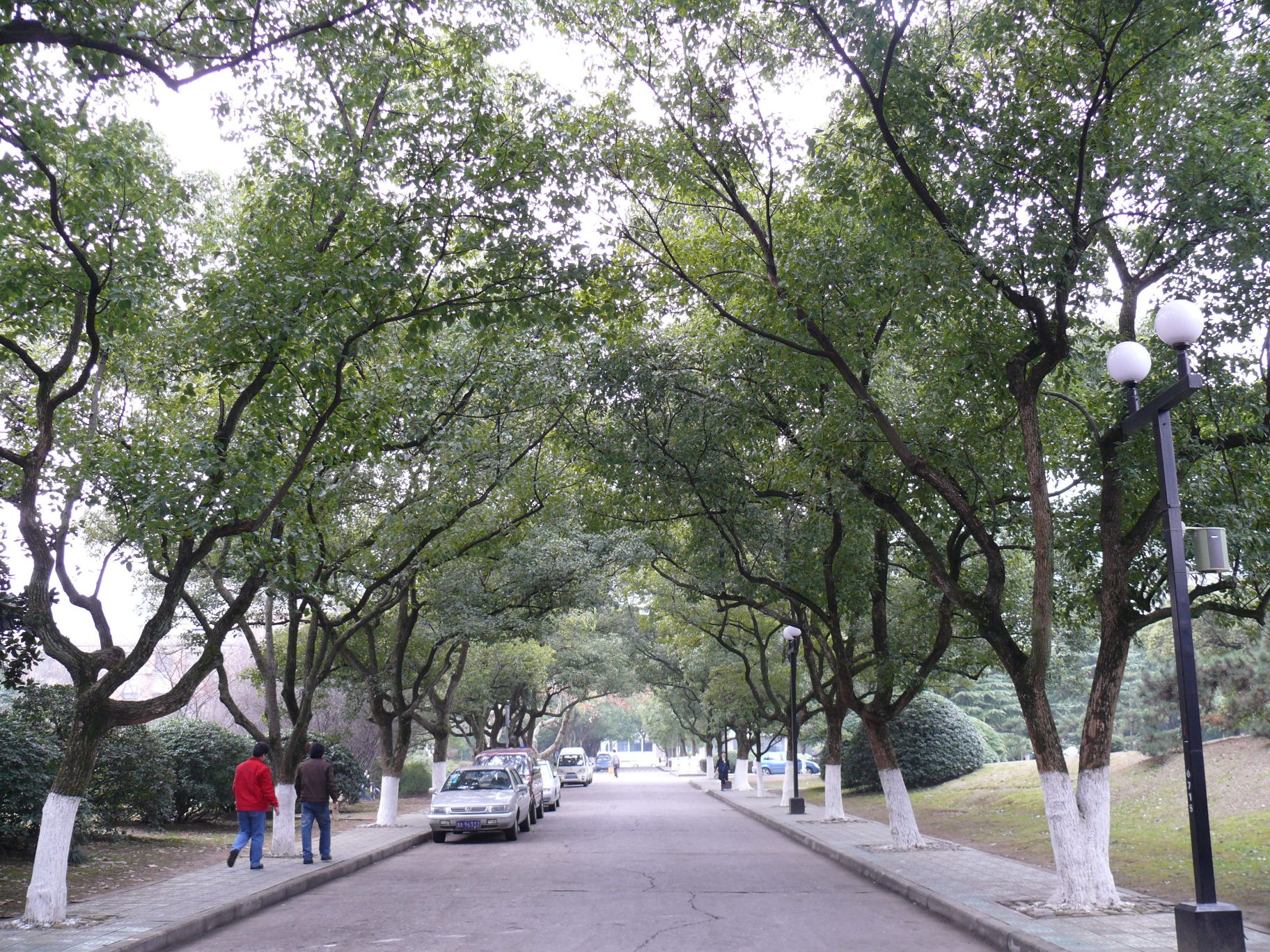 Yuquan campus of Zhejiang University (Hangzhou, China).